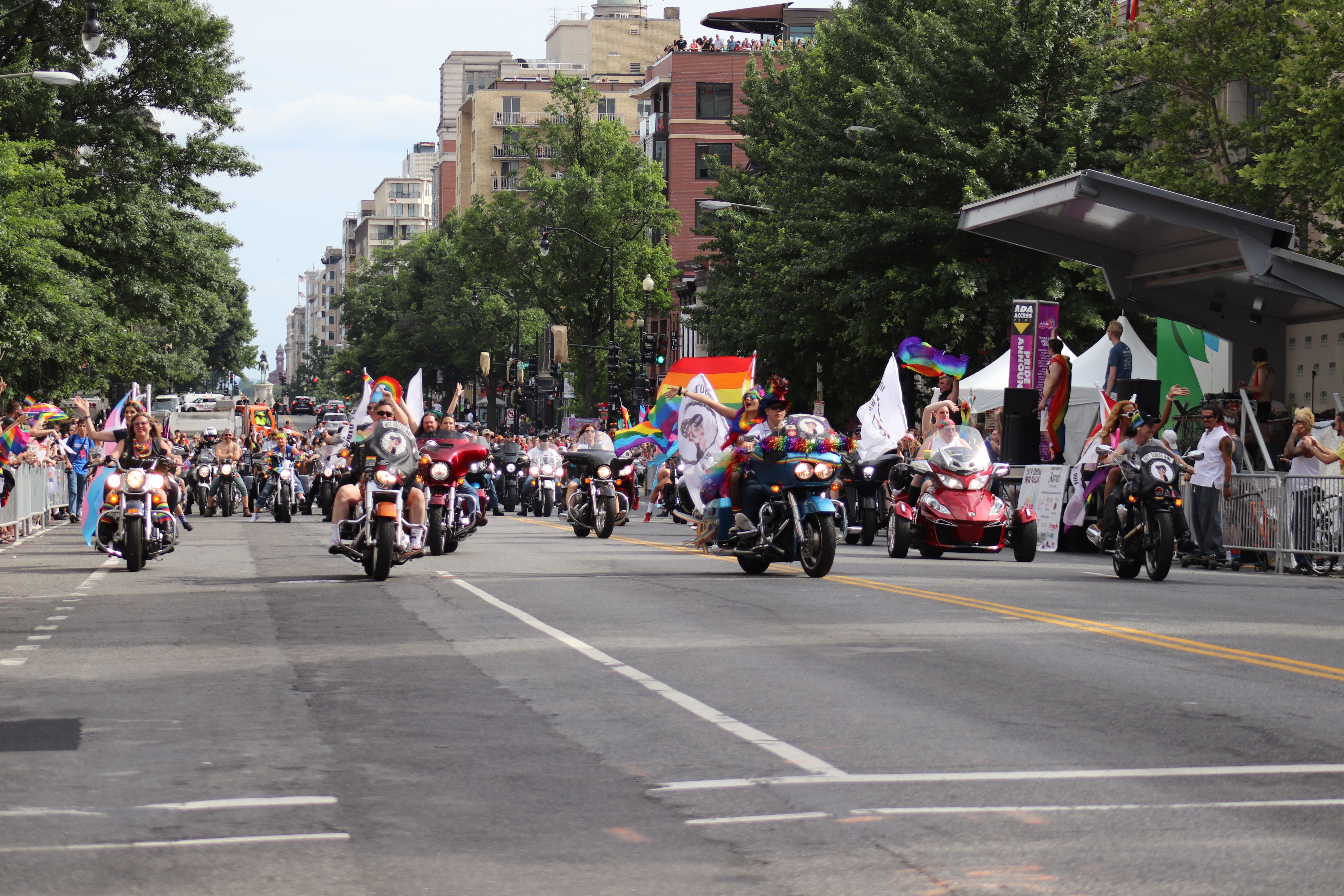 44th Capital Pride Parade March at 14th and Q Street, NW, Washington DC on Saturday evening, 8 June 2019 by Elvert Barnes Photography Elvert Barnes WASHINGTON DC GAY PRIDE 2019 at